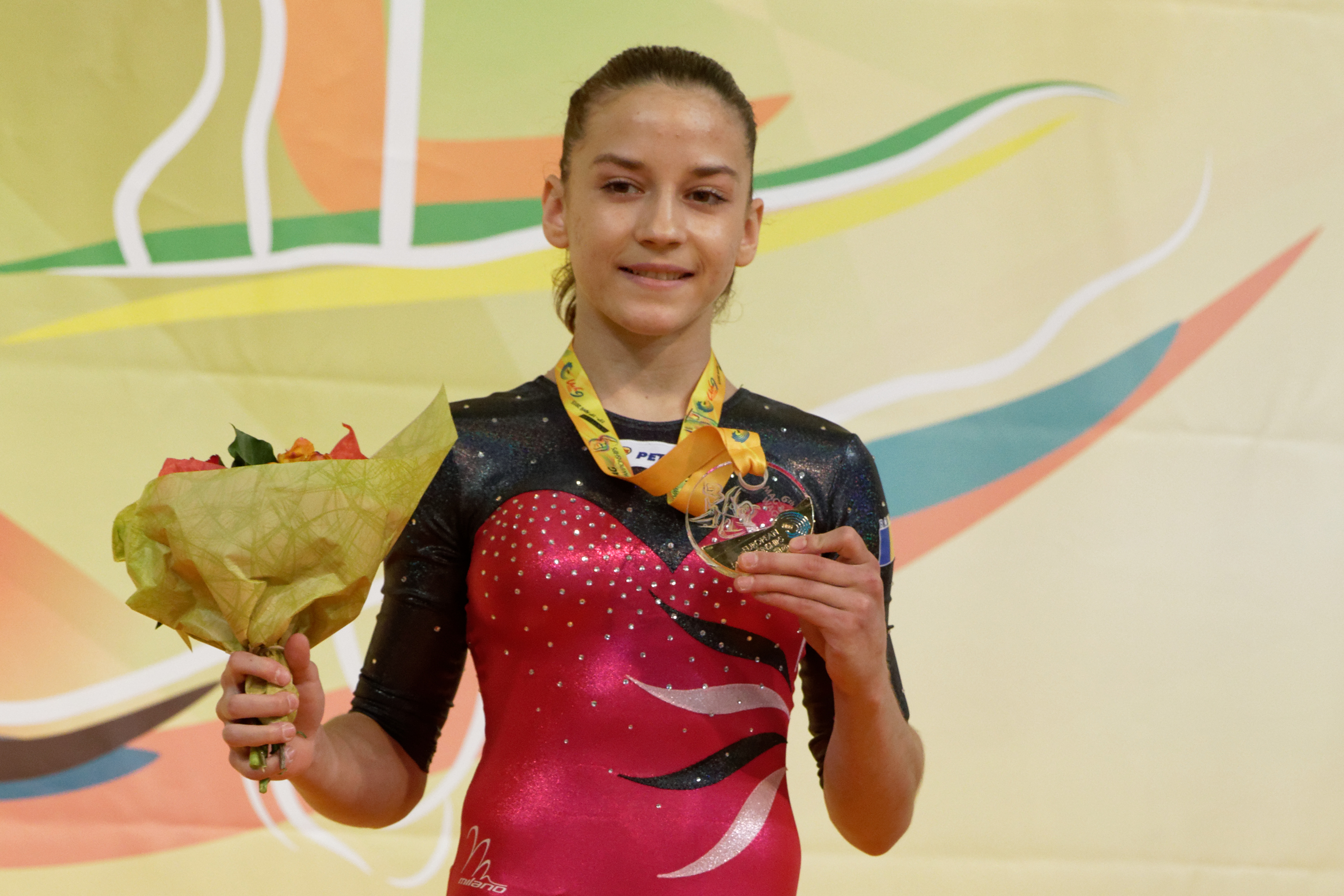 2015 European Artistic Gymnastics Championships. Bamance beam.